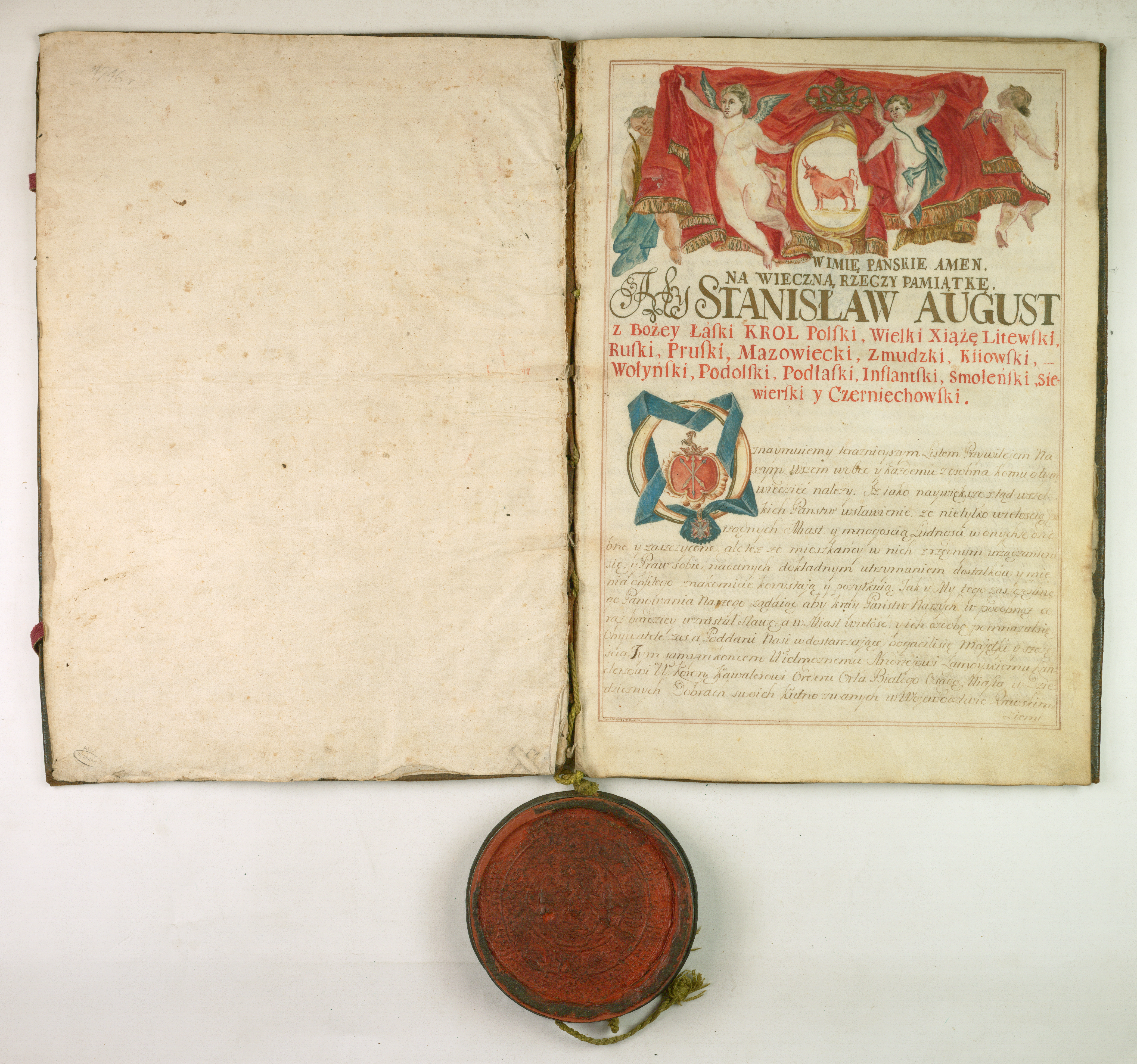 Stanisław August, king of Poland, permits Andrzej Zamoyski, the Grand Chancellor of the Crown, to locate a new town of Kutno on Magdeburg Law in his estate.